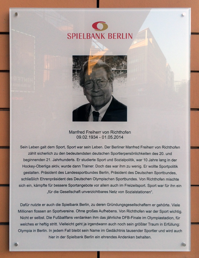 Memorial plaque, Manfred von Richthofen, Marlene-Dietrich-Platz 1, Berlin-Tiergarten, Germany